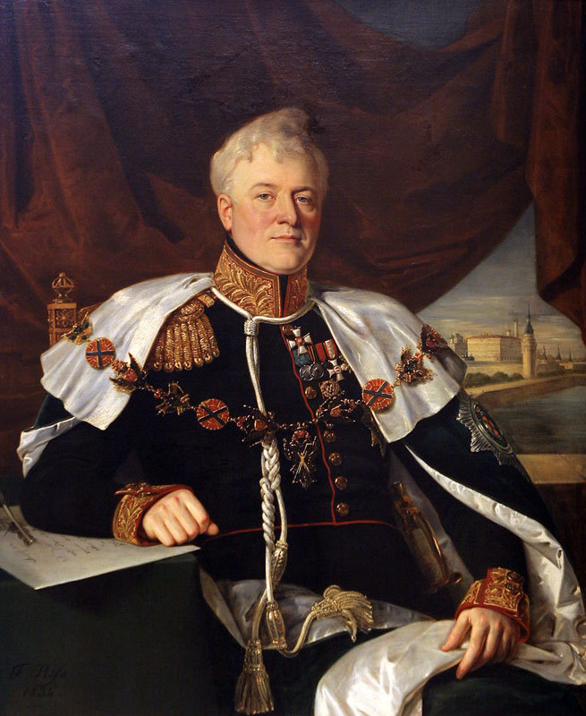 Portrait of Prince D.V. Golitsyn